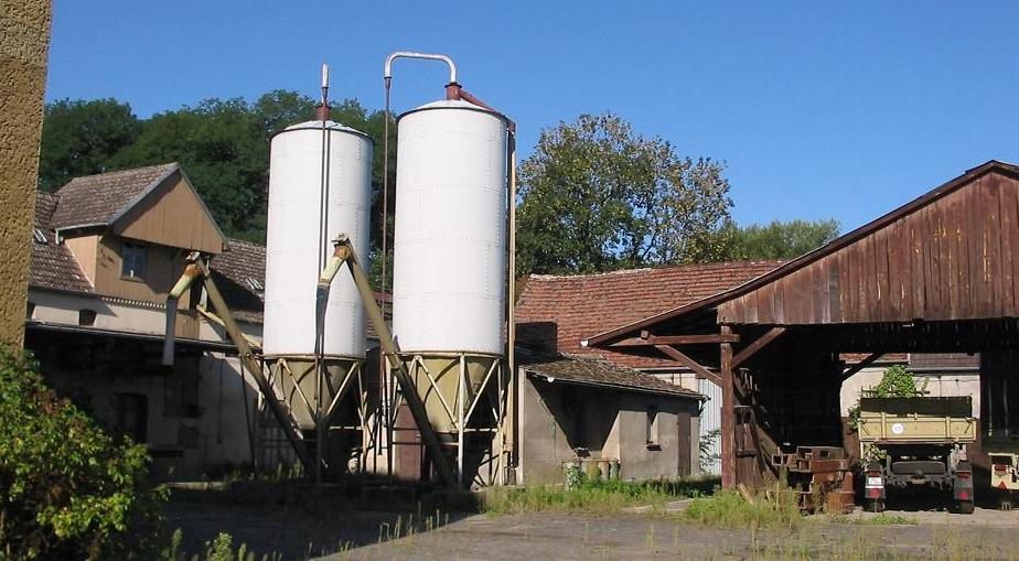 Shut downed "Old Mill" (water wheel) in Gömnigk. The village Gömnigk is a part of the town Brück in the district Potsdam Mittelmark, state Brandenburg, Germany, at the border to the natural preserve Naturpark Hoher Fläming.